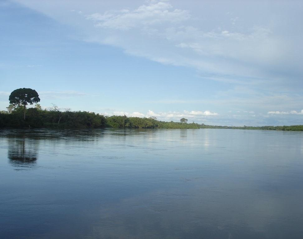 Lindi River, a tributary of the Congo River, near Kisangani, RDC—Democratic Republic of the Congo.